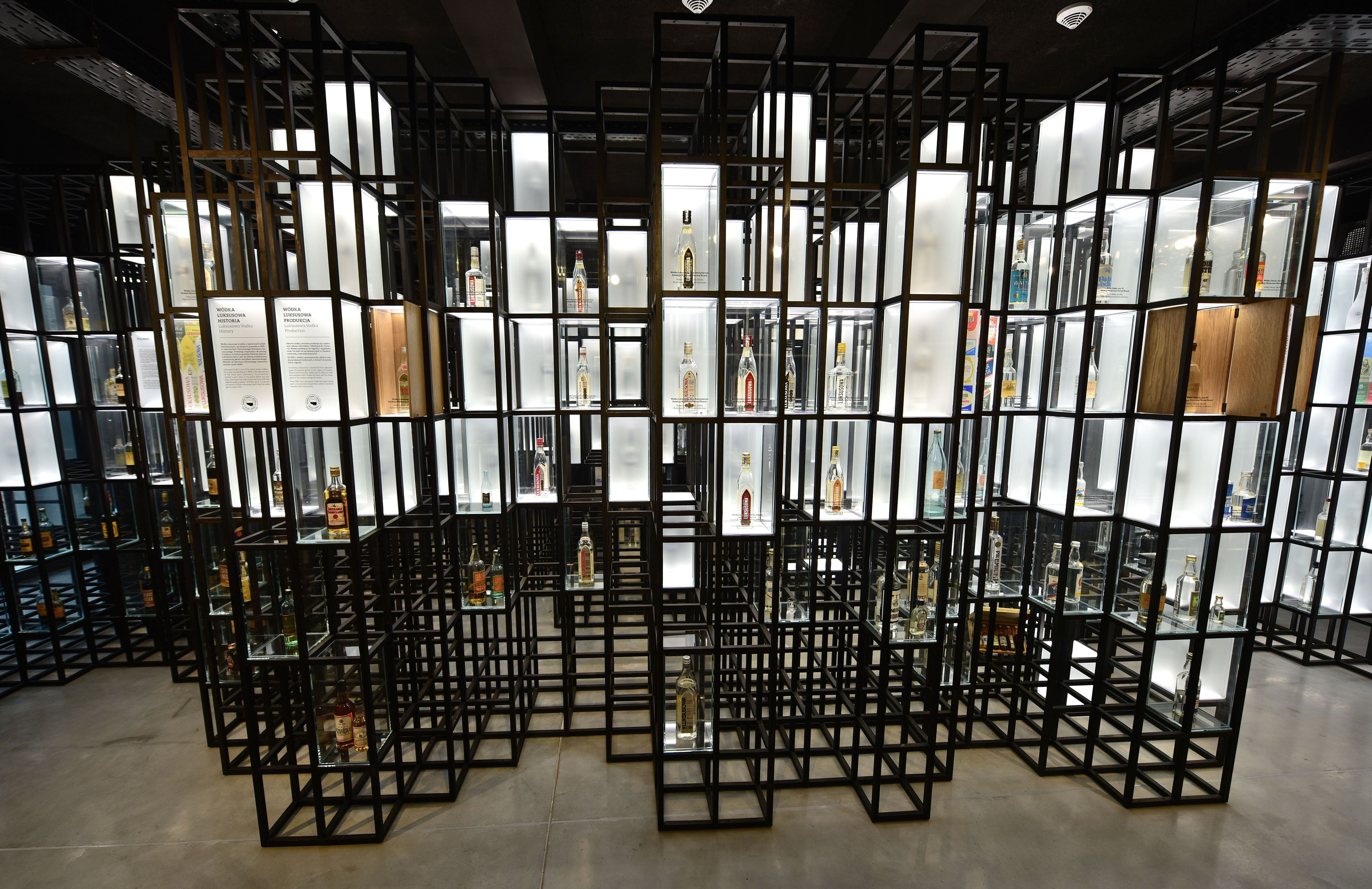 Polish Vodka Museum in Warsaw. Gallery 4